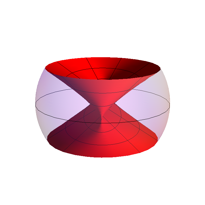 The end of a topological surgery: having cut two disks from a sphere, we attach a self-intersecting cylinder to get a Klein bottle. Diagram made with Mathematica 8.